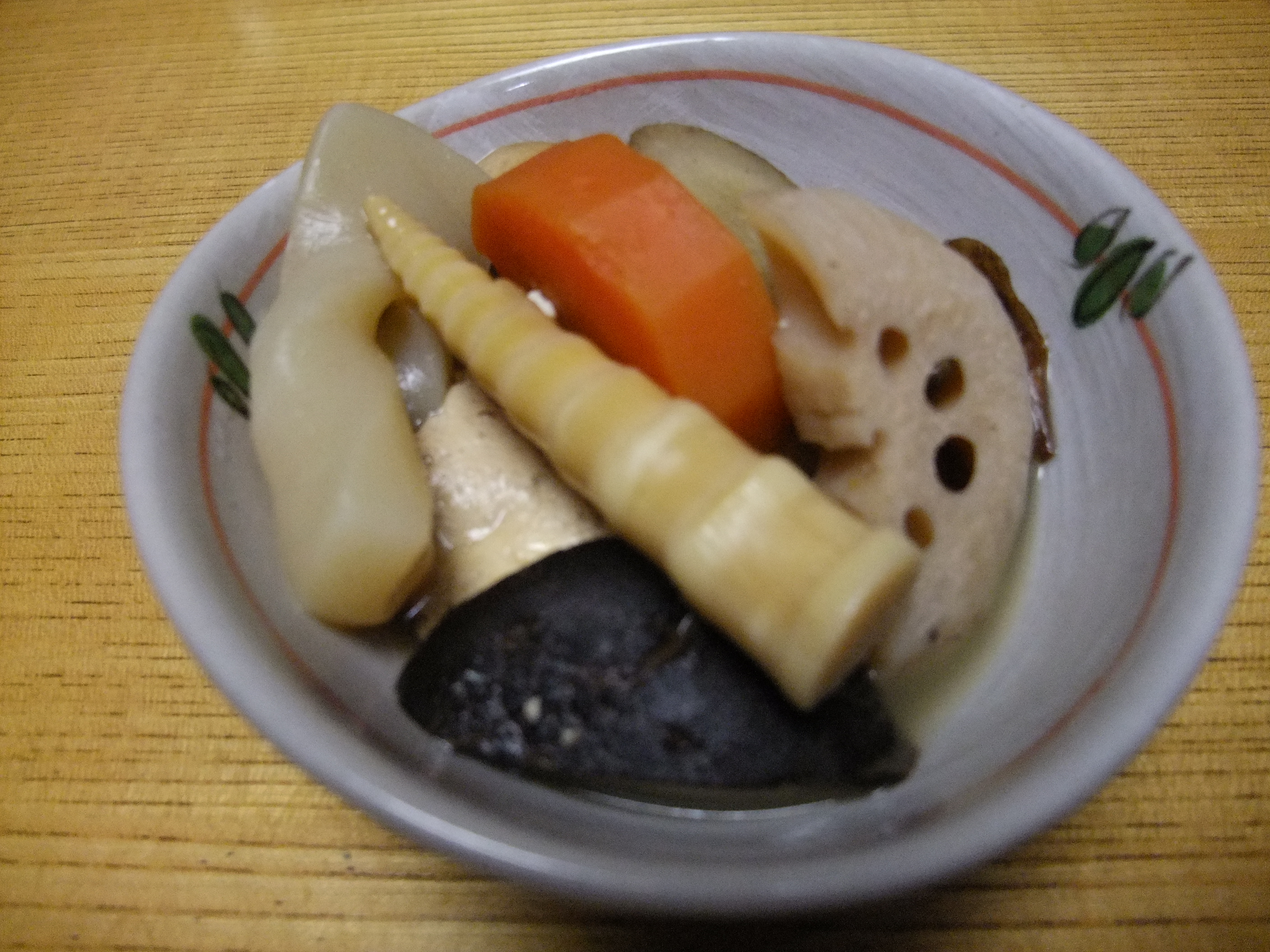 Japanese-style dish "Nishime".